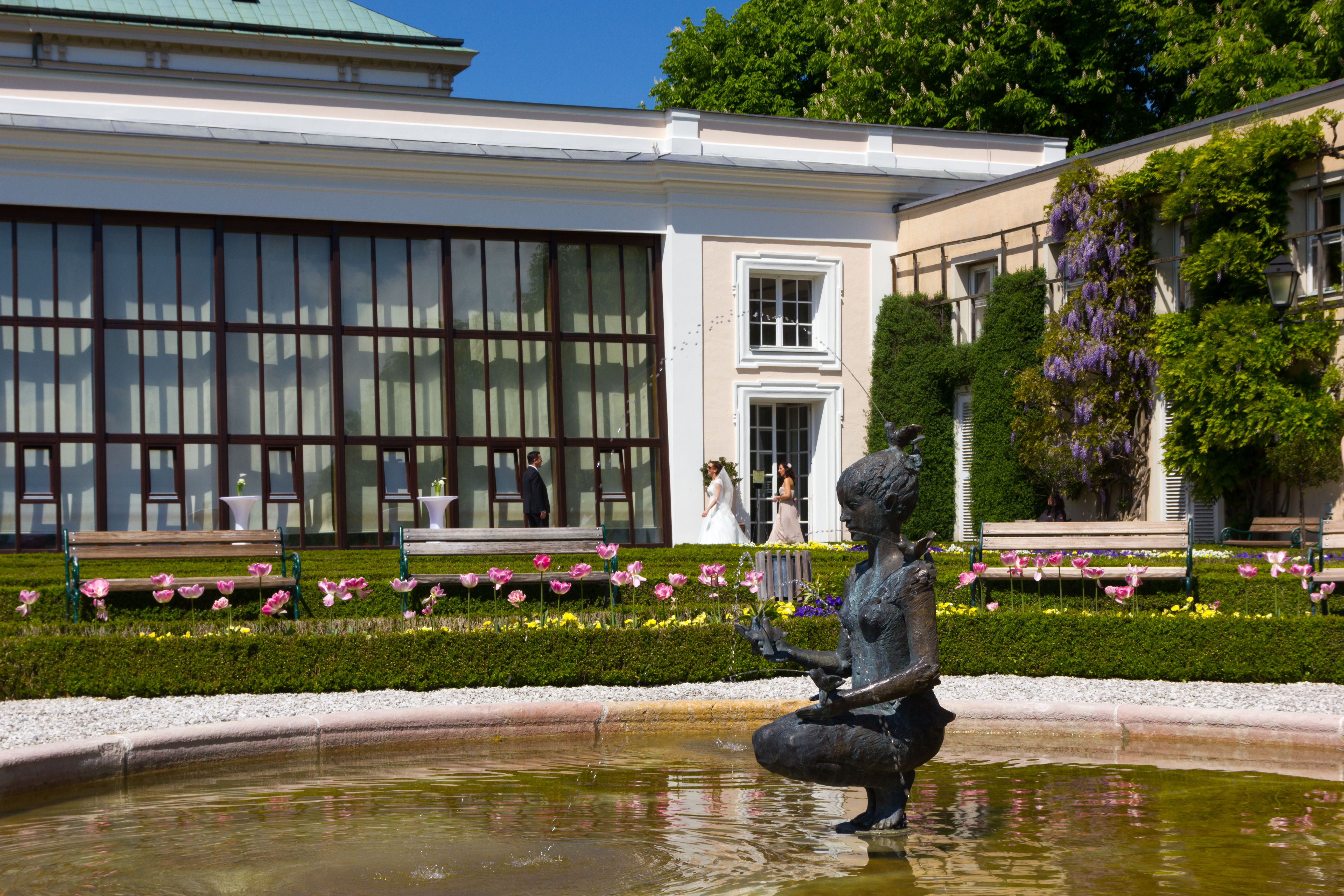 A statue in a fountain in front of the Orangerie at Mirabellgarten.